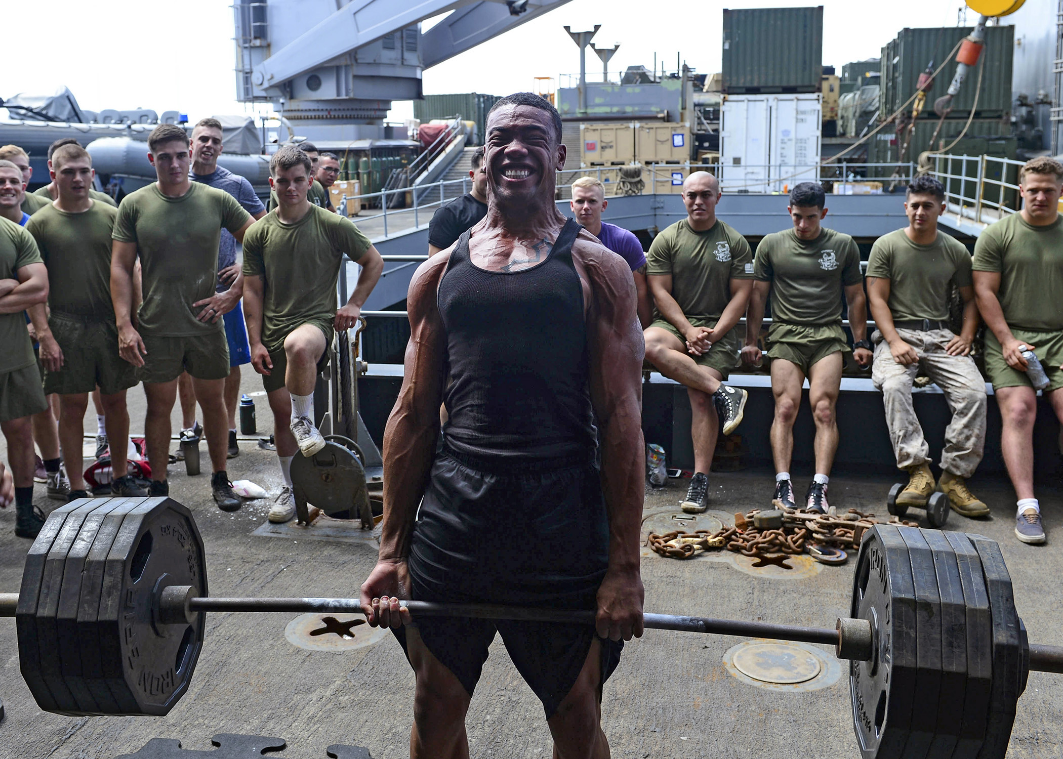 GULF OF OMAN (Sept. 18, 2016) Seaman Kennedy Prescott performs a deadlift during a power lifting competition aboard the amphibious dock landing ship USS Whidbey Island (LSD 41). Whidbey Island is deployed with the Wasp Amphibious Ready Group to support maritime security operations and theater security cooperation efforts in the U.S. 5th Fleet area of operations. (U.S. Navy photo by Mass Communication Specialist 2nd Class Nathan R. McDonald/Released)160918-N-TI017-105 Join the conversation: navylive.dodlive.mil